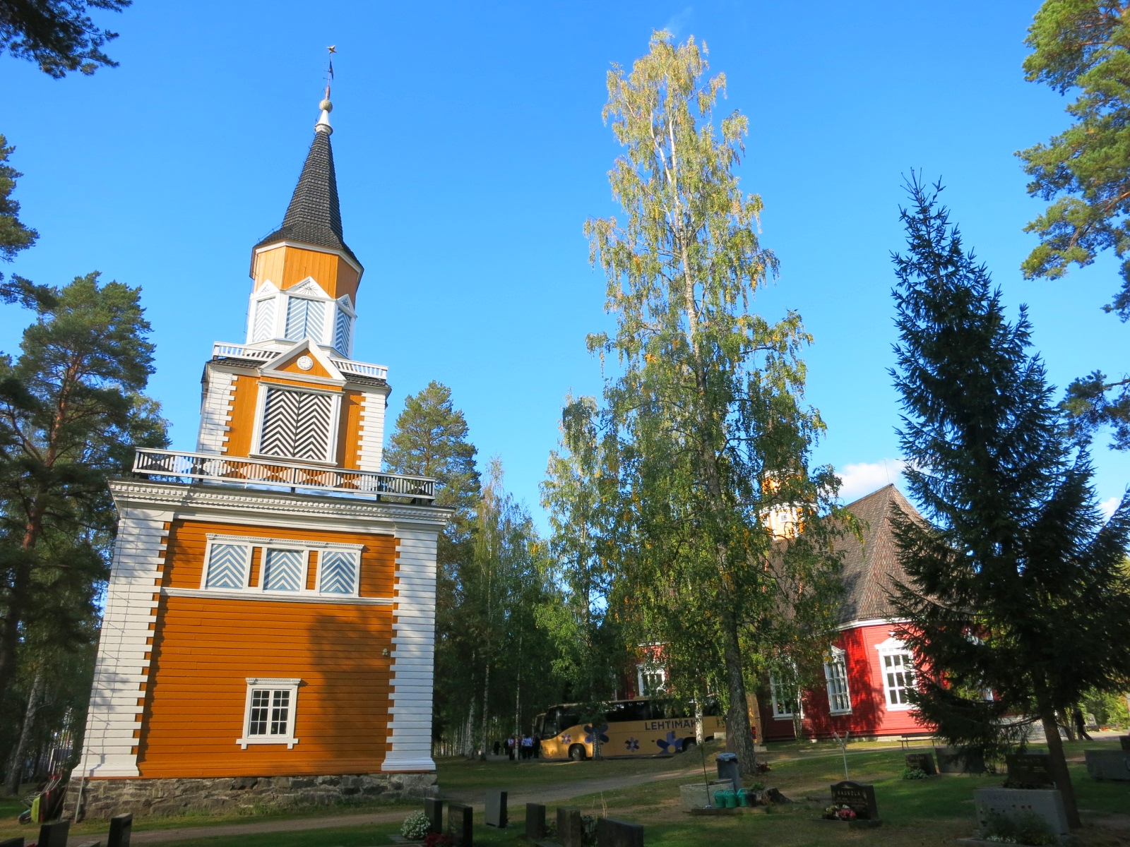 Campanile (left) and church (right, farther) of Kuortane (Southern Ostrobothnia region, Finland)